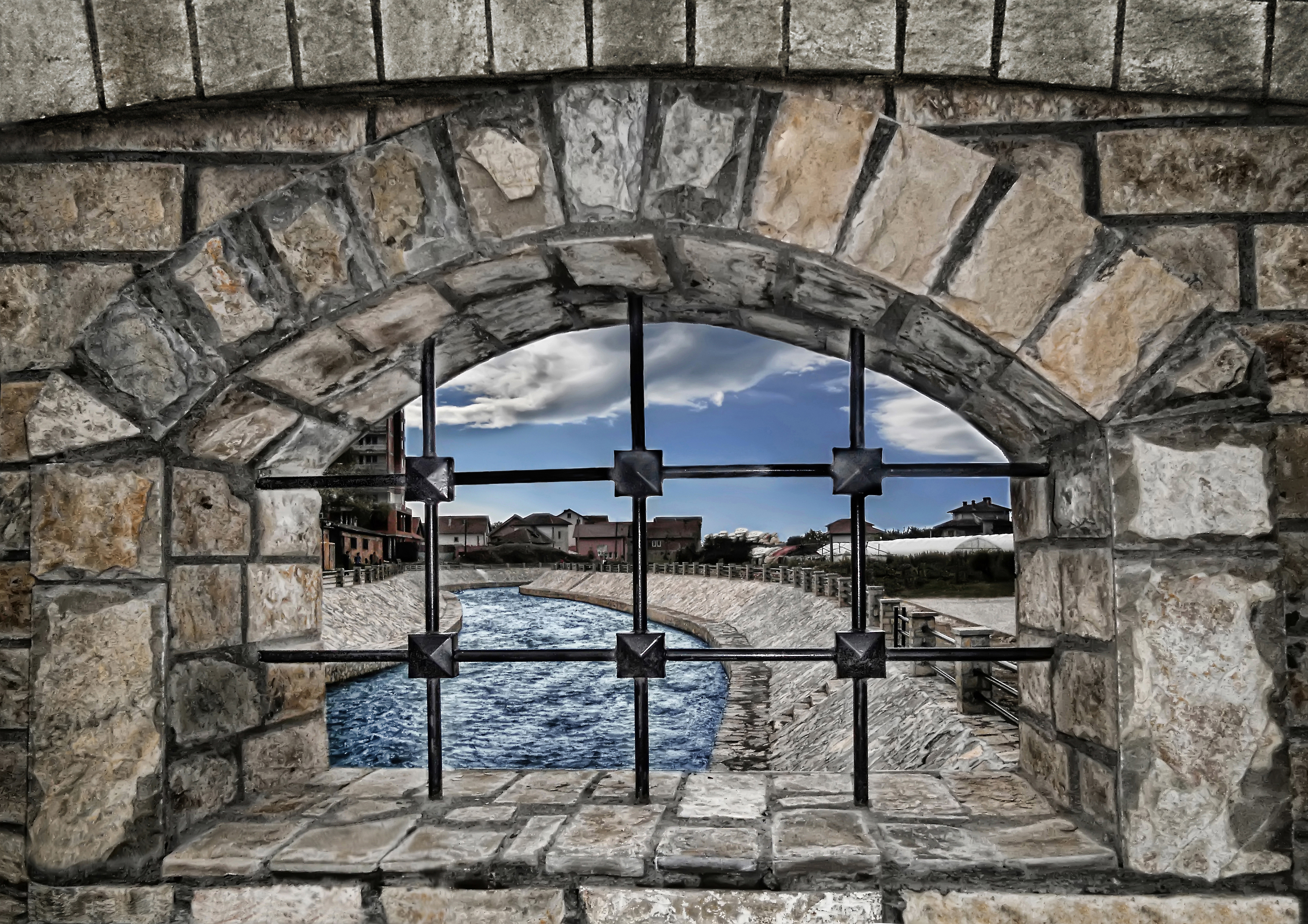 Ura e lumit llap ne Podujeve